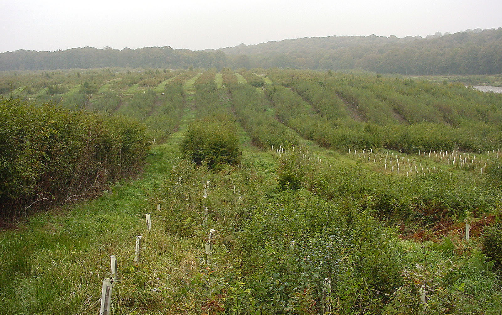 Forest of Rihoult-Clairmarais, near Saint Omer, North of France